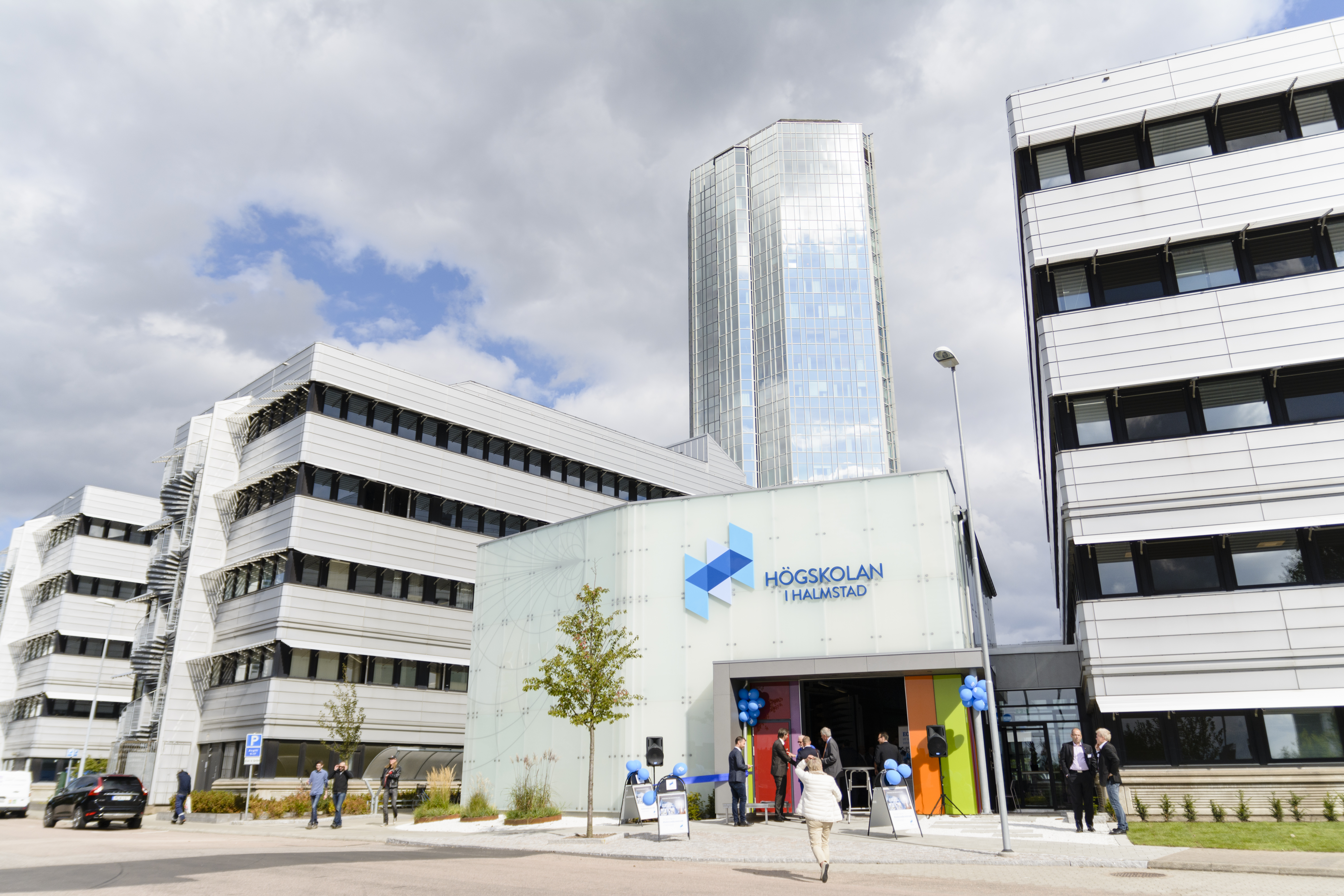 Electronics Centre in Halmstad on the day of its opening, September 11th 2015.